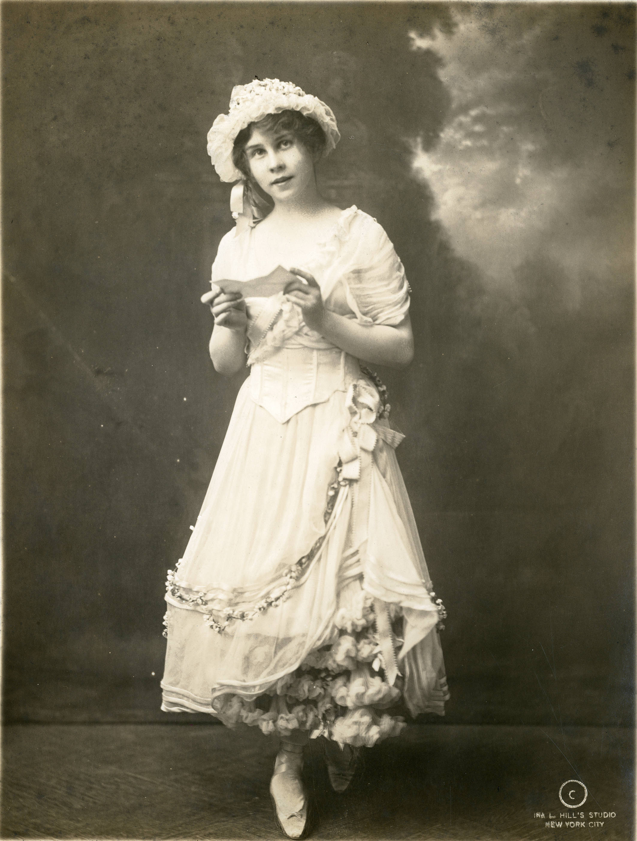 Lydia Lopokova, ballet dancer Subjects: dancers